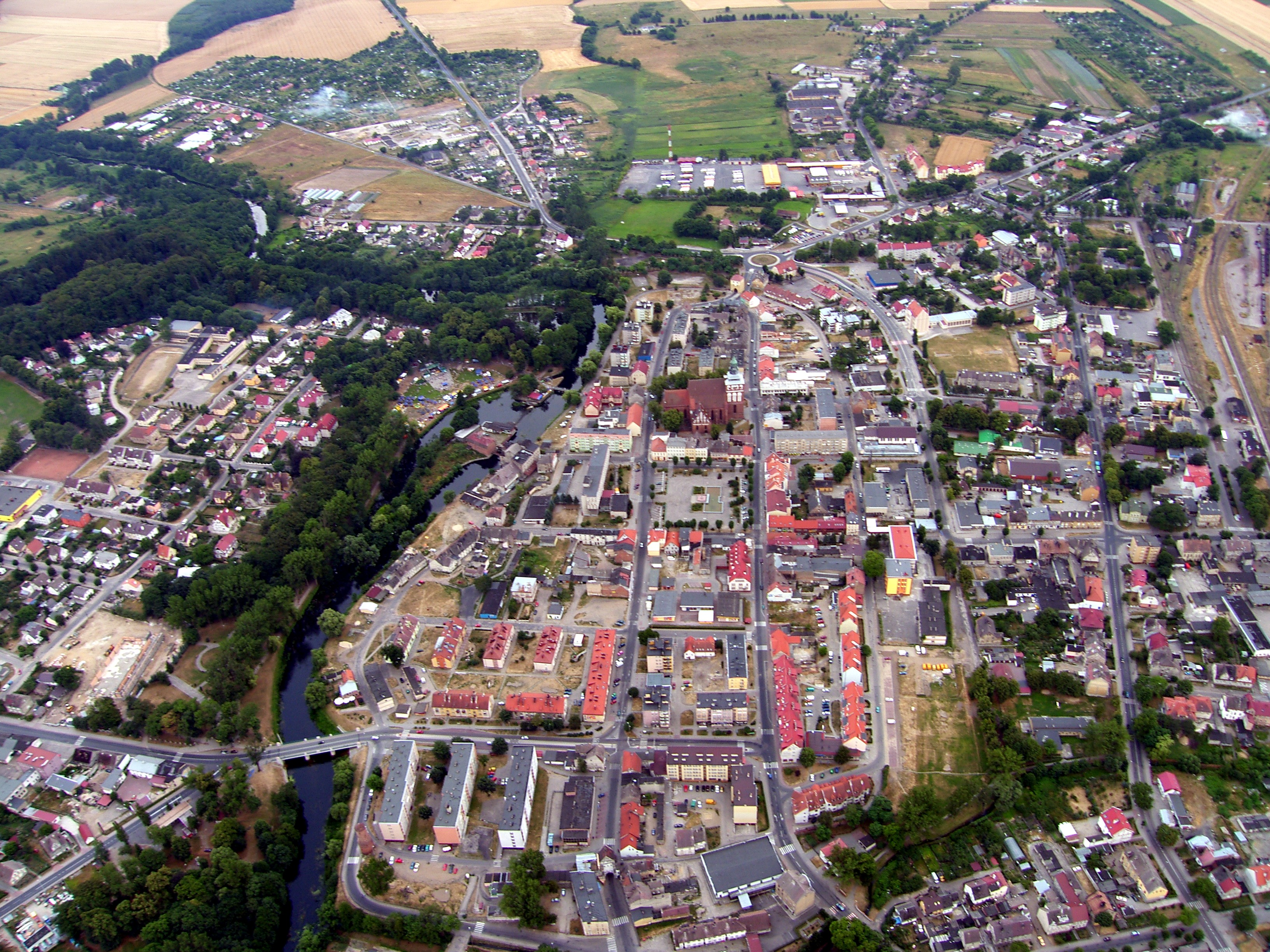 Bird's-eye view on Gryfice (Poland)